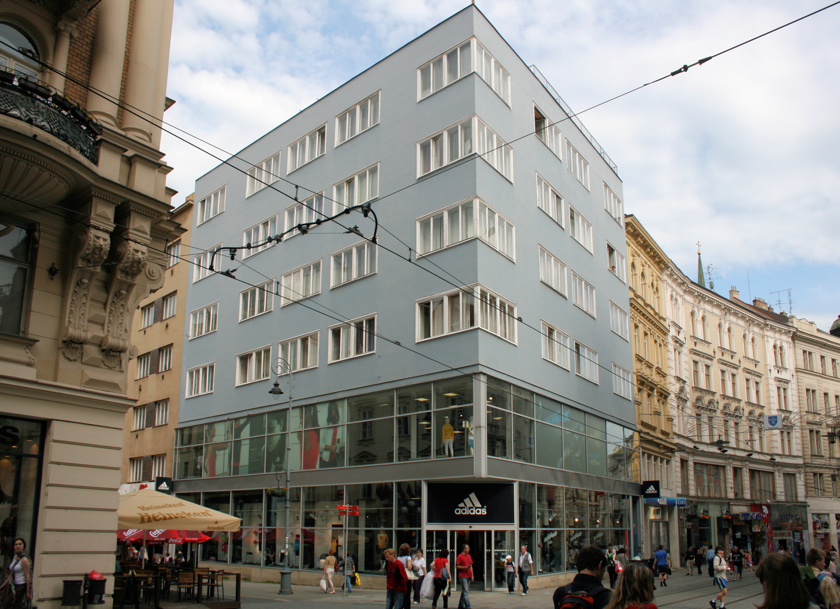 Adidas store in functionalist building at Masarykova street 19-21 in Brno, Czech Republic.